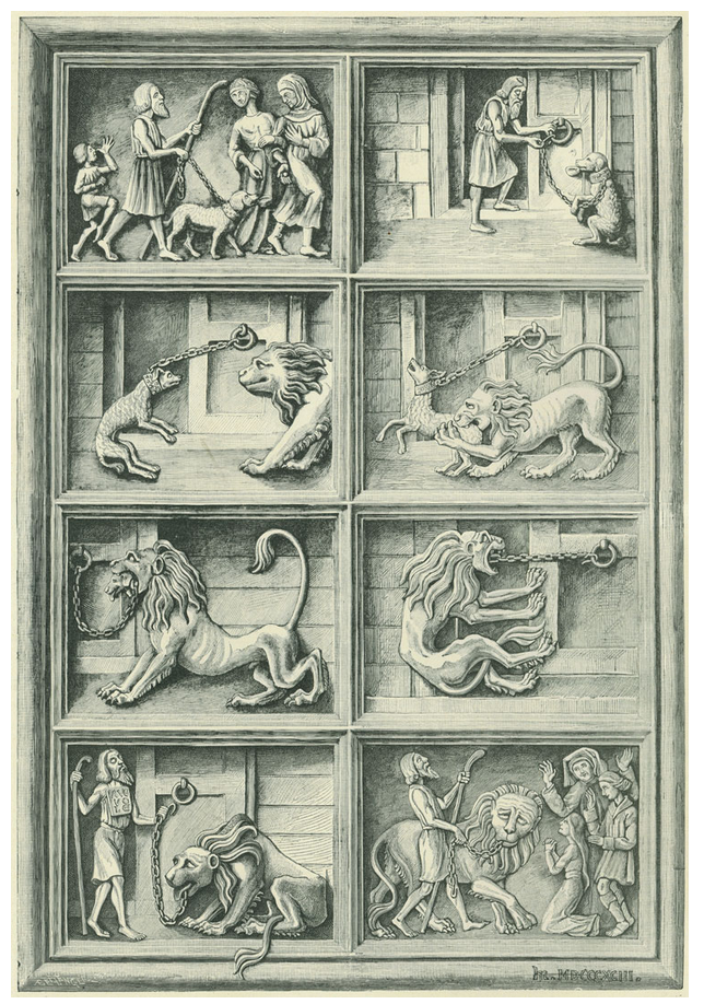 Le Lion et l'aveugle, ou la caniche remplacé, comic strip published in Paris: L'Illustration, issue 2656.